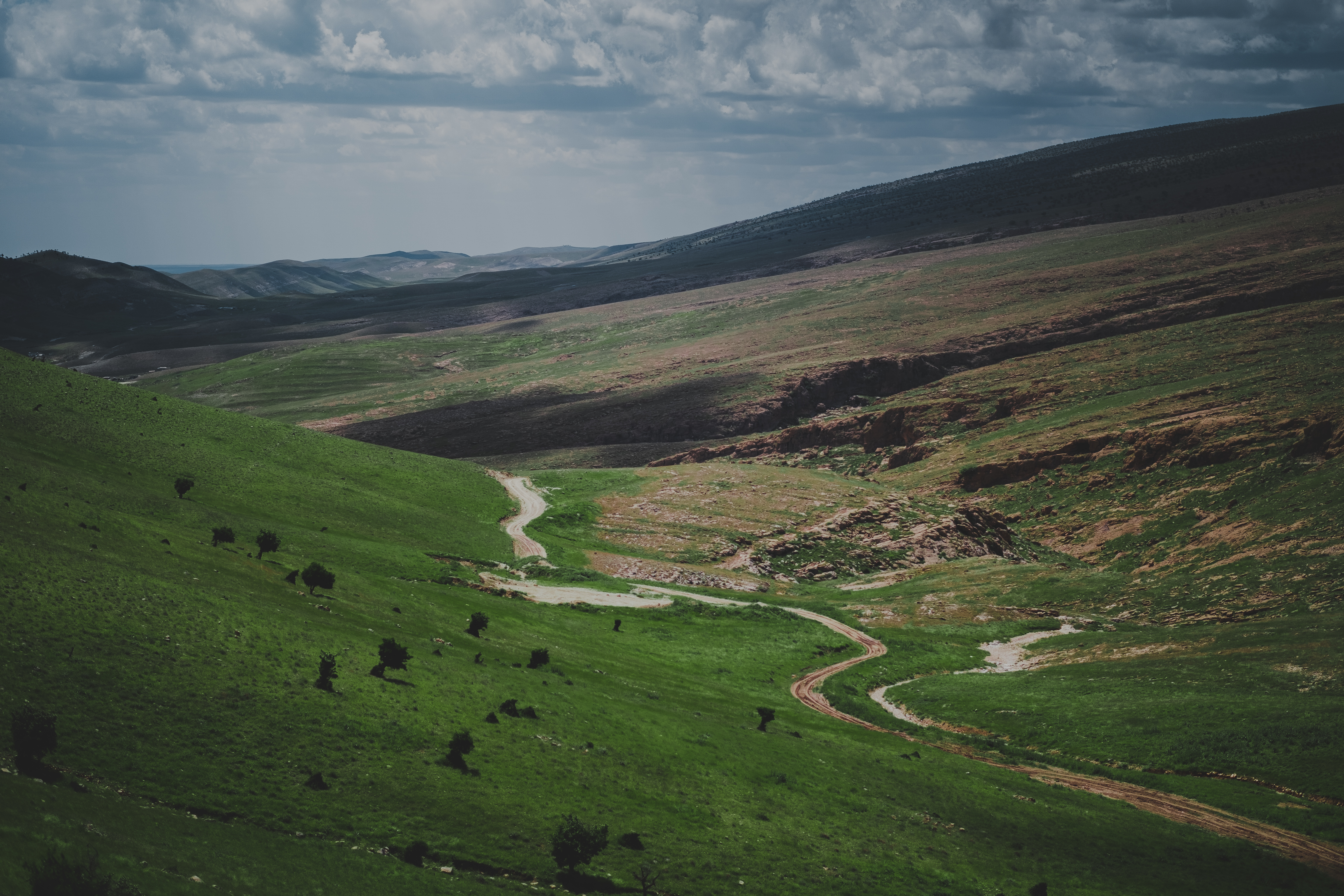 Views around the Yezidi shrine of Mame Reshan after its destruction by the Islamic State, in the Shingal mountains overlooking Shingal